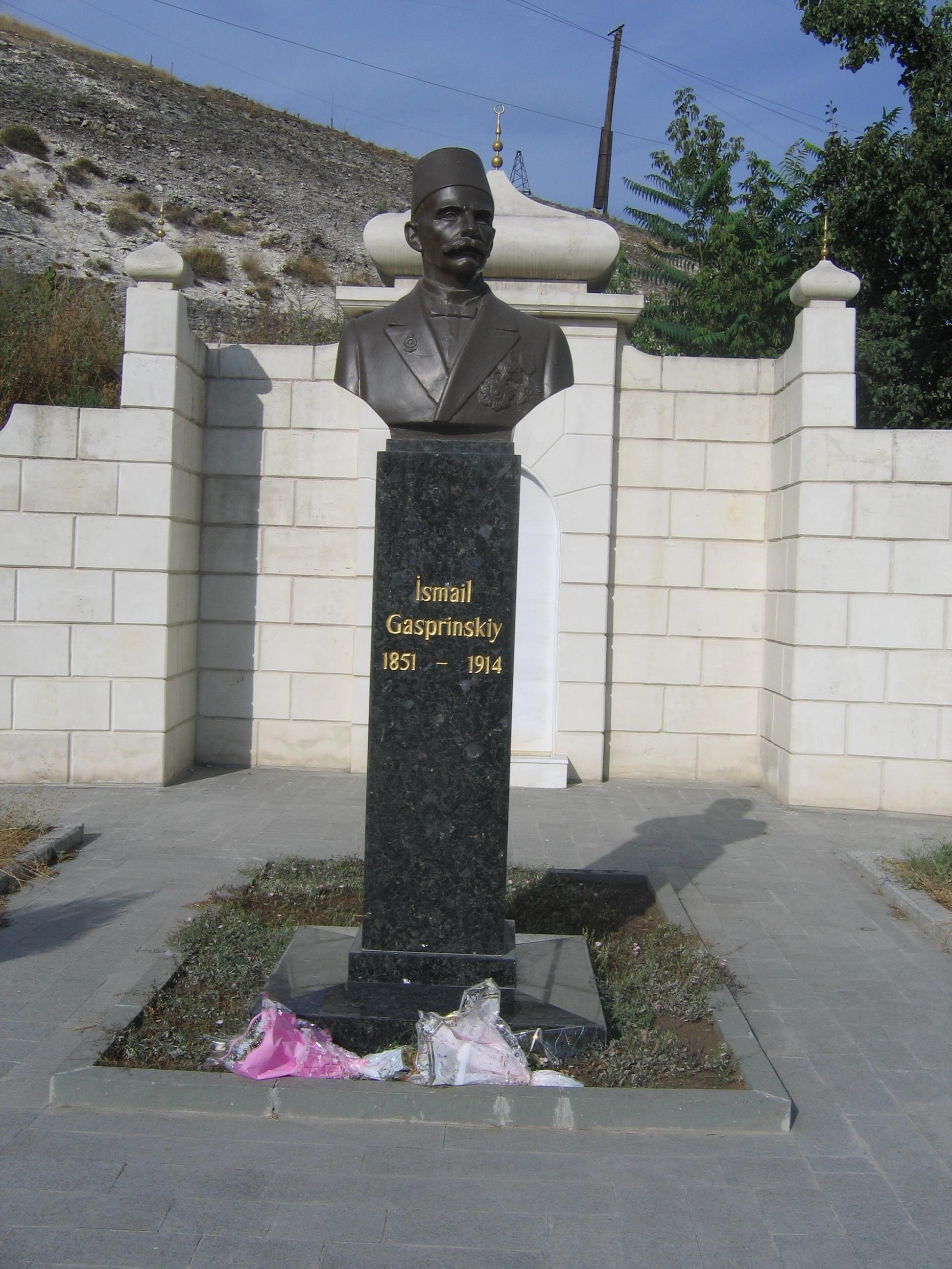 Monument to İsmail Gasprinskiy in Bakhchisaray